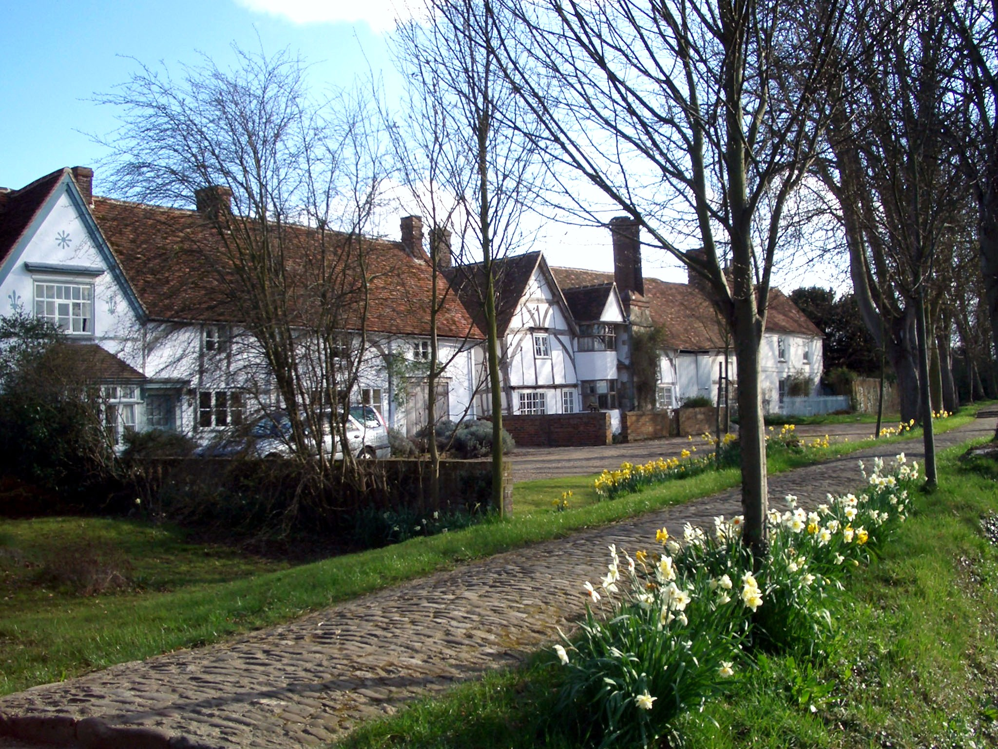 69–81 The Causeway, Steventon, Oxfordshire (formerly Berkshire)